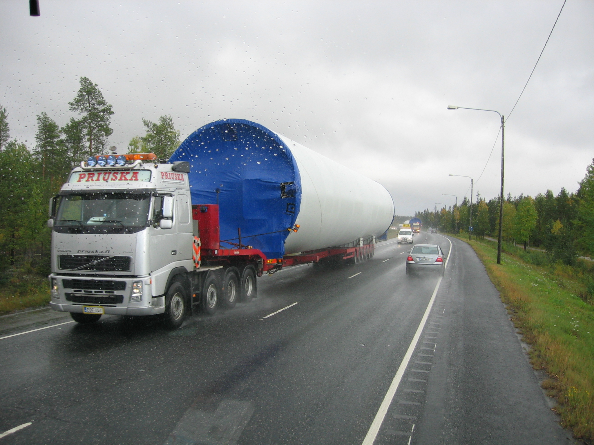 A special transport of a part of a wind turbine on the national road 4 (E8/E75) in Kemi, Finland